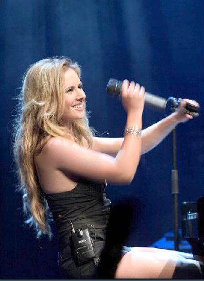 Lucie playing at a concert in Utrecht, Holland.